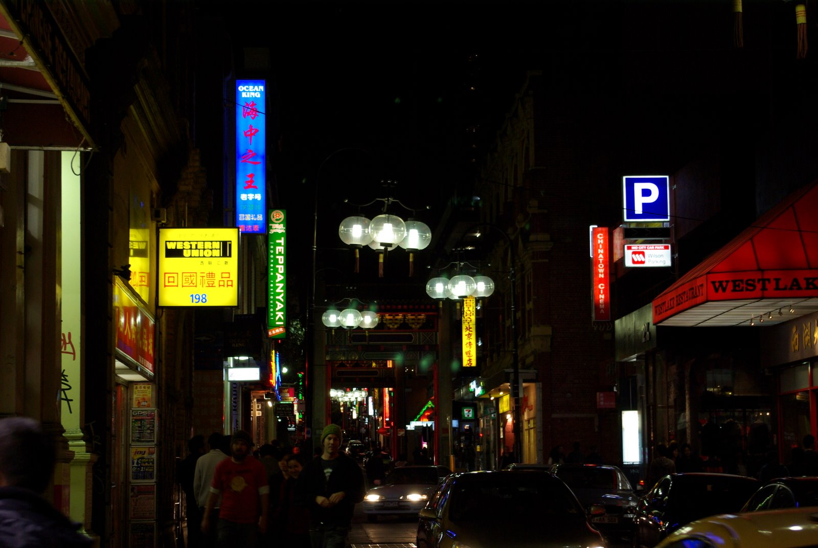 Melbourne Chinatown at night.